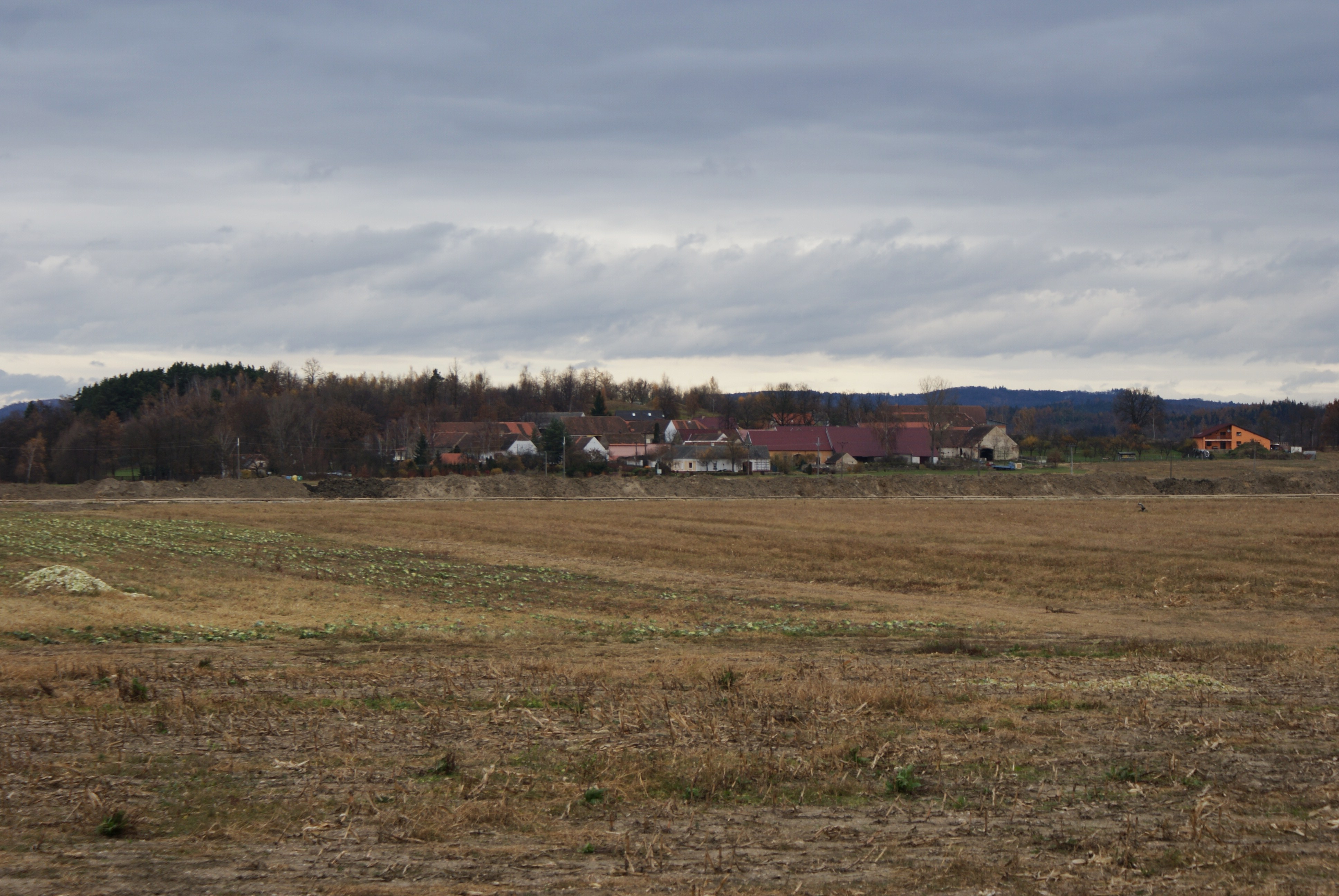 The village of Čavyně, part of Vodňany, Strakonice District